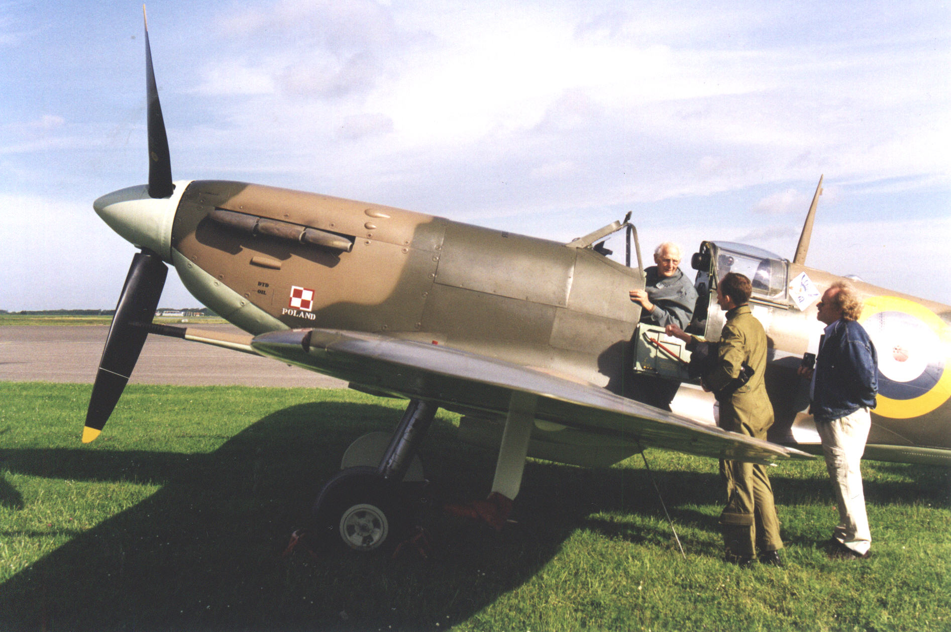 Allan Wright (1920-2015) sits in Spitfire V BM597 at Calais, France, during the filming of a Time Team excavation of a Spitfire. He is accompanied by pilot Charlie Brown, and Time Team producer Tim Taylor